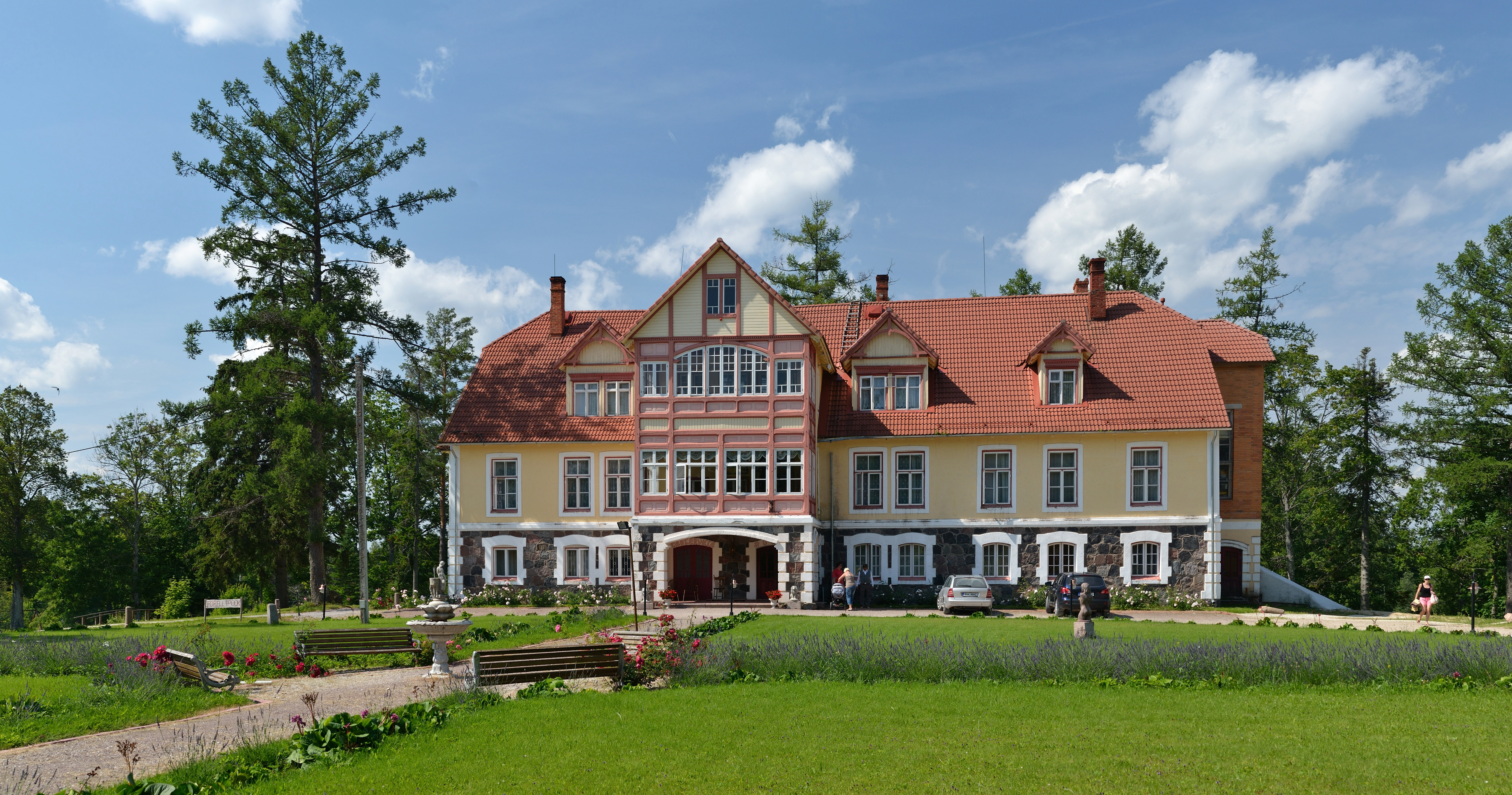 Pikajärve manor main building, built ca in 1908